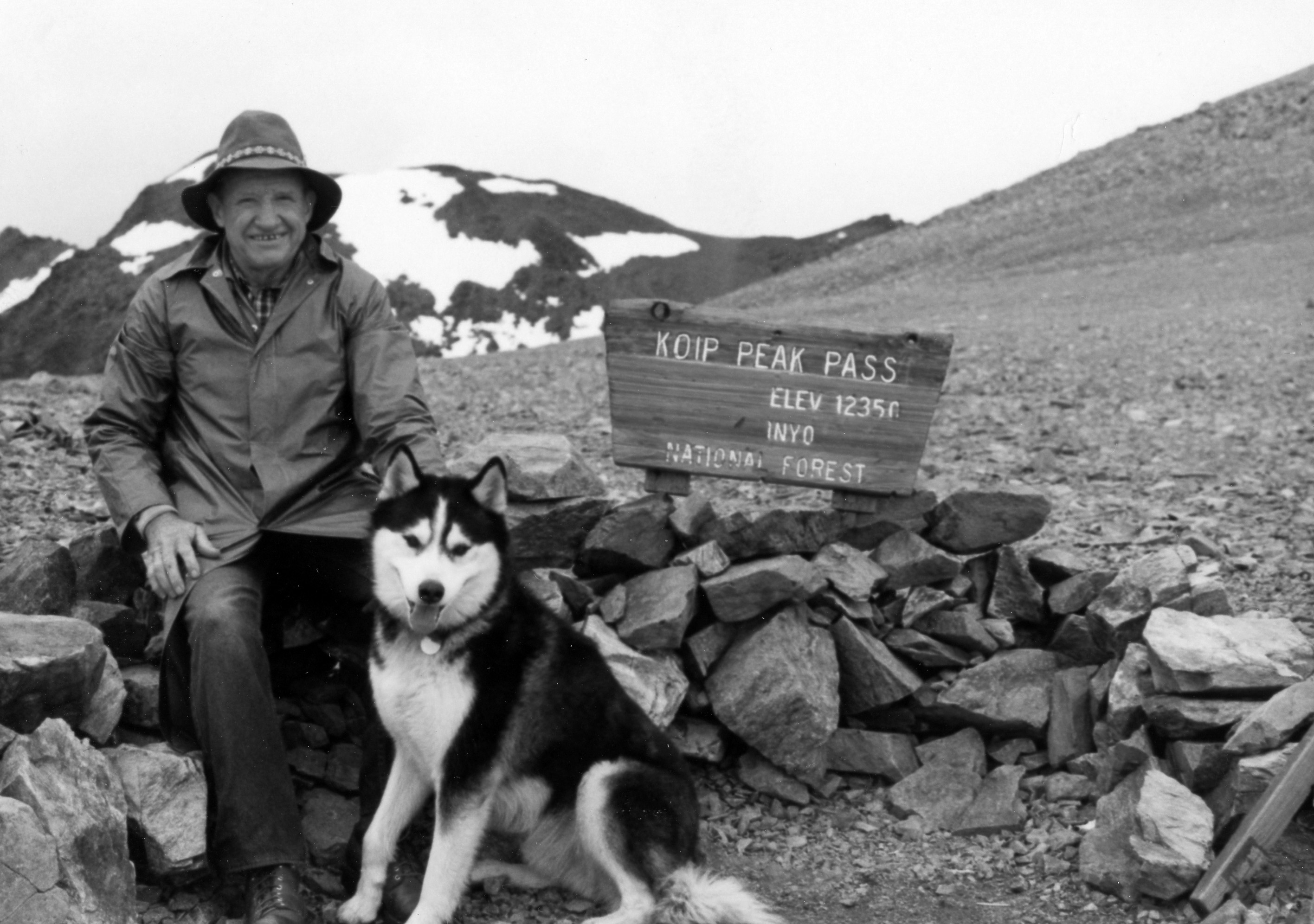 Early mountaineer Robert K. Brinton and his dog Toki in his later life at the top of Koip Peak Pass in California's Sierra Nevada range (1983)